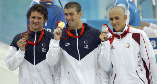 U.S. swimmer Michael Phelps shows off his Olympic gold medal as he stands on the victory podium with teammate Ryan Lochte, bronze medalist, and Hungary's Laszlo Cseh, silver medalist, at the National Aquatics Center in Beijing.